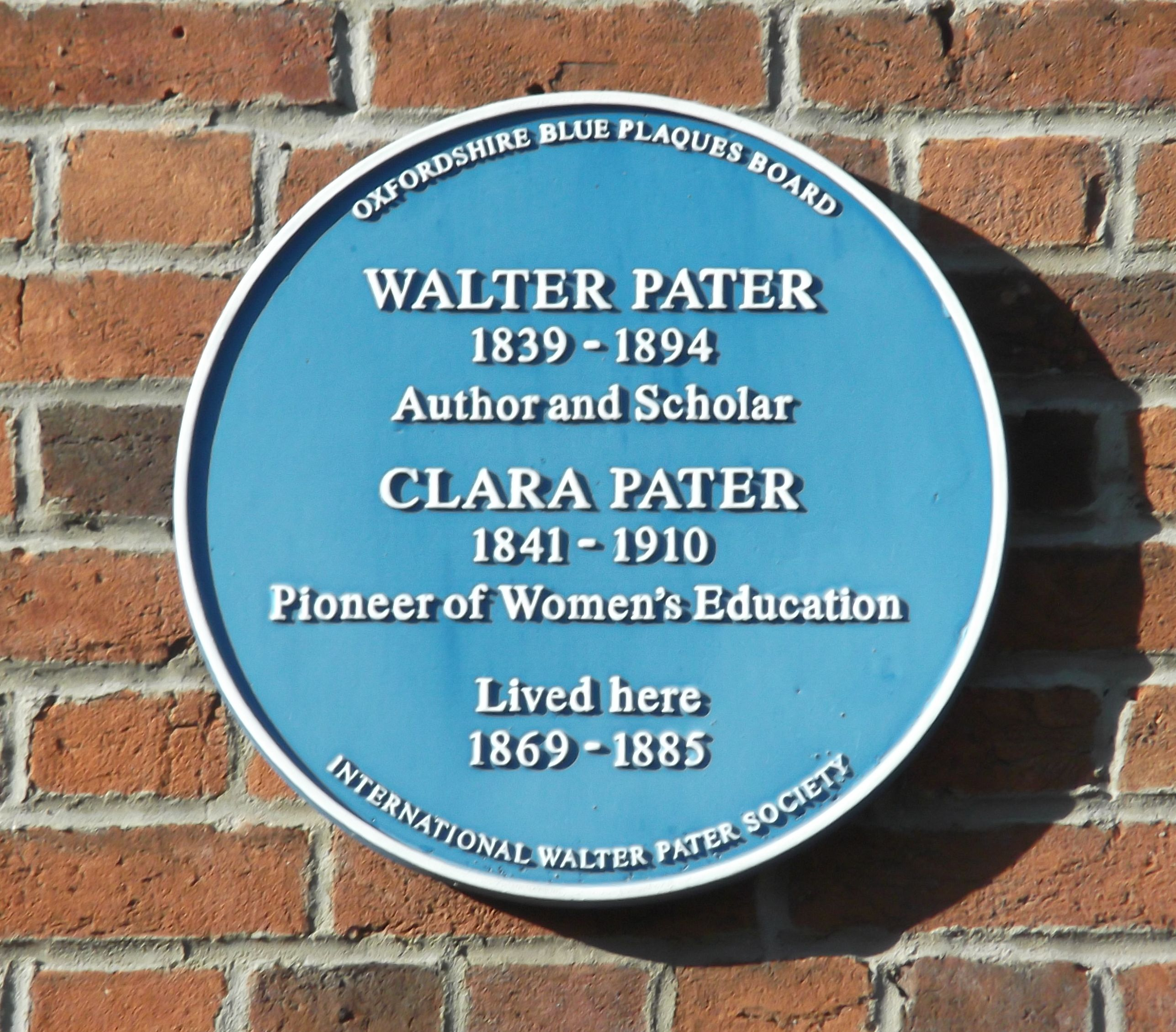 Walter Pater (1839–1894), author and scholar, and his sister Clara Pater (1841–1910), a pioneer of women’s education, lived at 2 Bradmore Road, north Oxford, England. A blue plaque was installed by the Oxfordshire Blue Plaques Board in 2004.